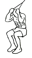 an exercise of abs